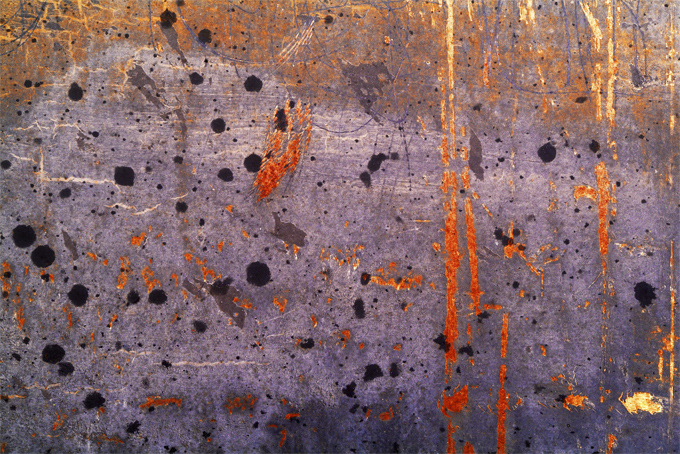 Abstract photography by French photographer Remi Benali - Arles, 2010